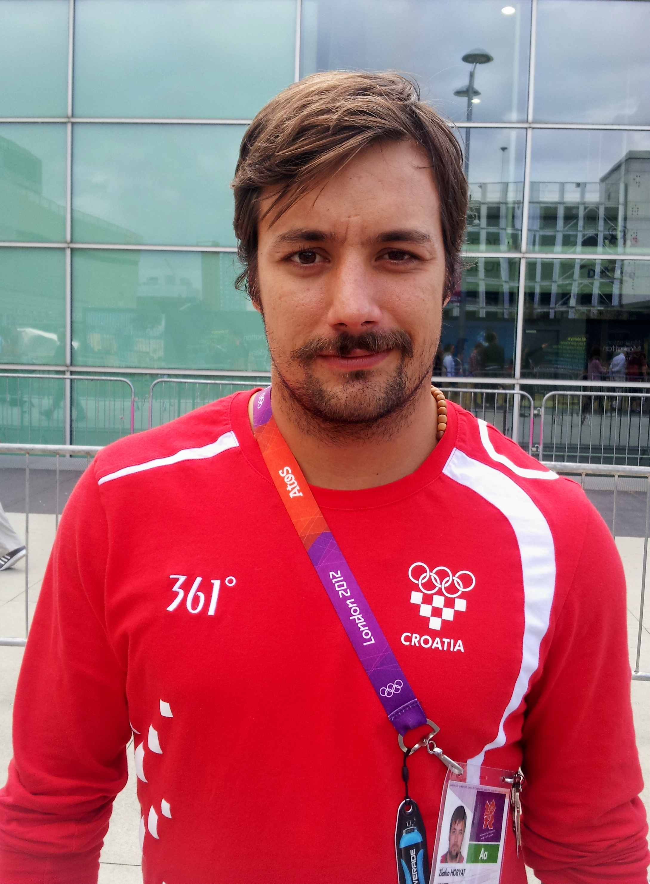 Croatian handball player Zlatko Horvat, taken at The London 2012 Summer Olympic Games